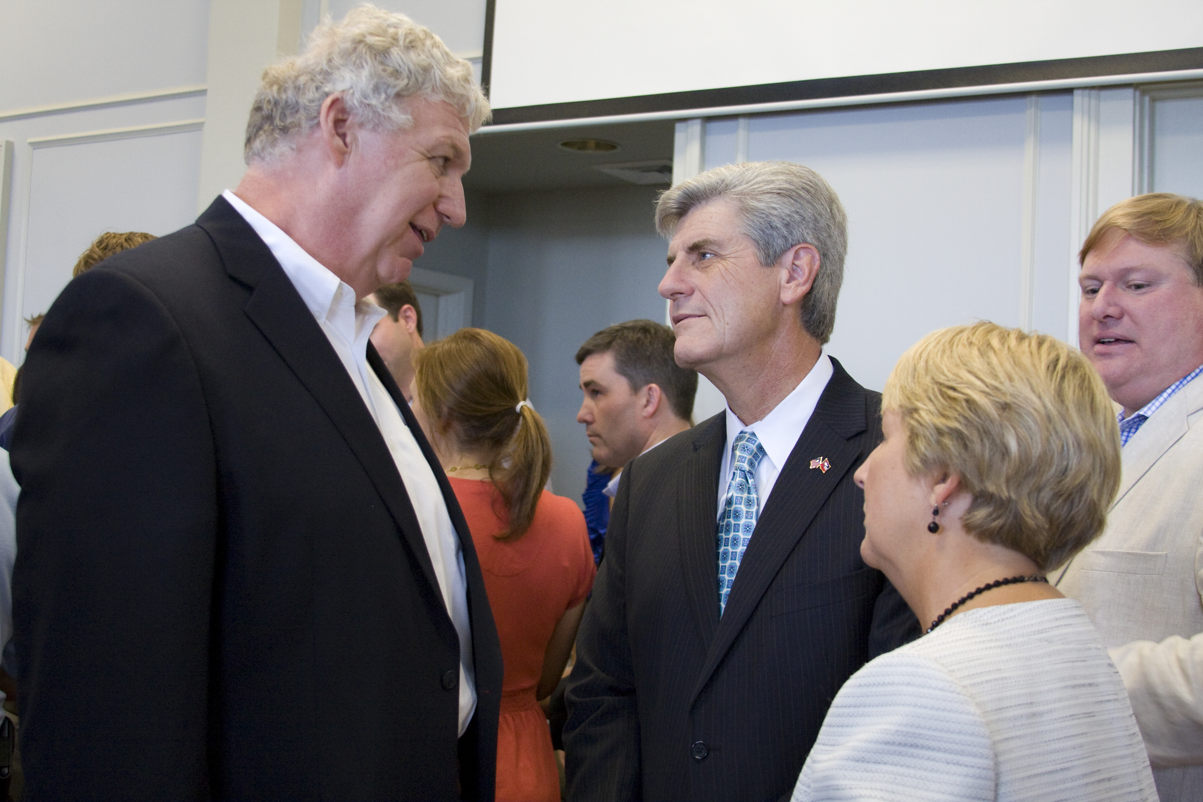 Gulfport, MS, August 29, 2010 -- FEMA Deputy Administrator Richard Serino speaks with Mississippi Lt. Governor Phil Bryant at the Gulfport Hurricane Katrina 5th Anniversary commemoration. Photo by Tim Burkitt/FEMA photo